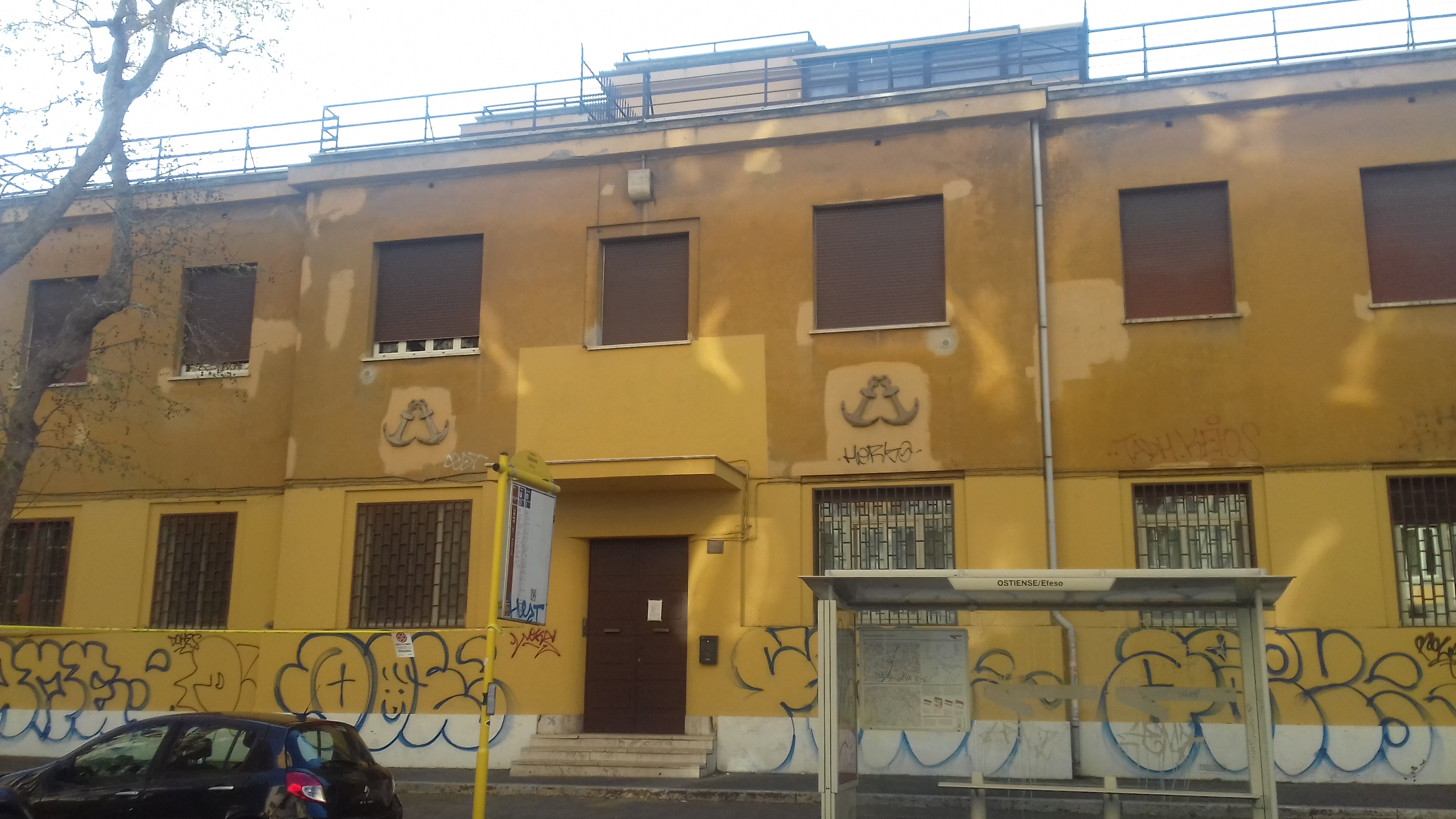 San Paolo former military radio station, built in 1917 and dismantled in the 1960s